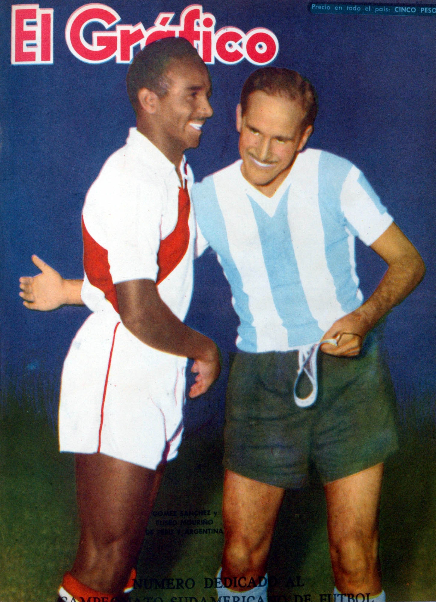 Oscar Gómez Sánchez (Perú) and Eliseo Mouriño (Argentina), camaraderie before the Argentina (3) vs Peru (1) match, "Campeonato Sudamericano" in Argentina.